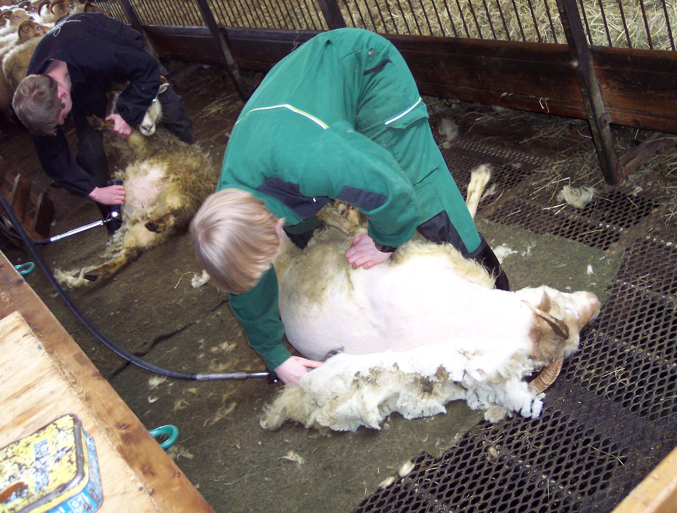 Sheep shearing in Iceland, 2008.